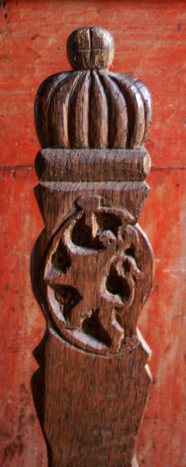 Coat of arms of Norway on a calendar stick (primstav) from Hallingdal, Norway, probably 18th century.